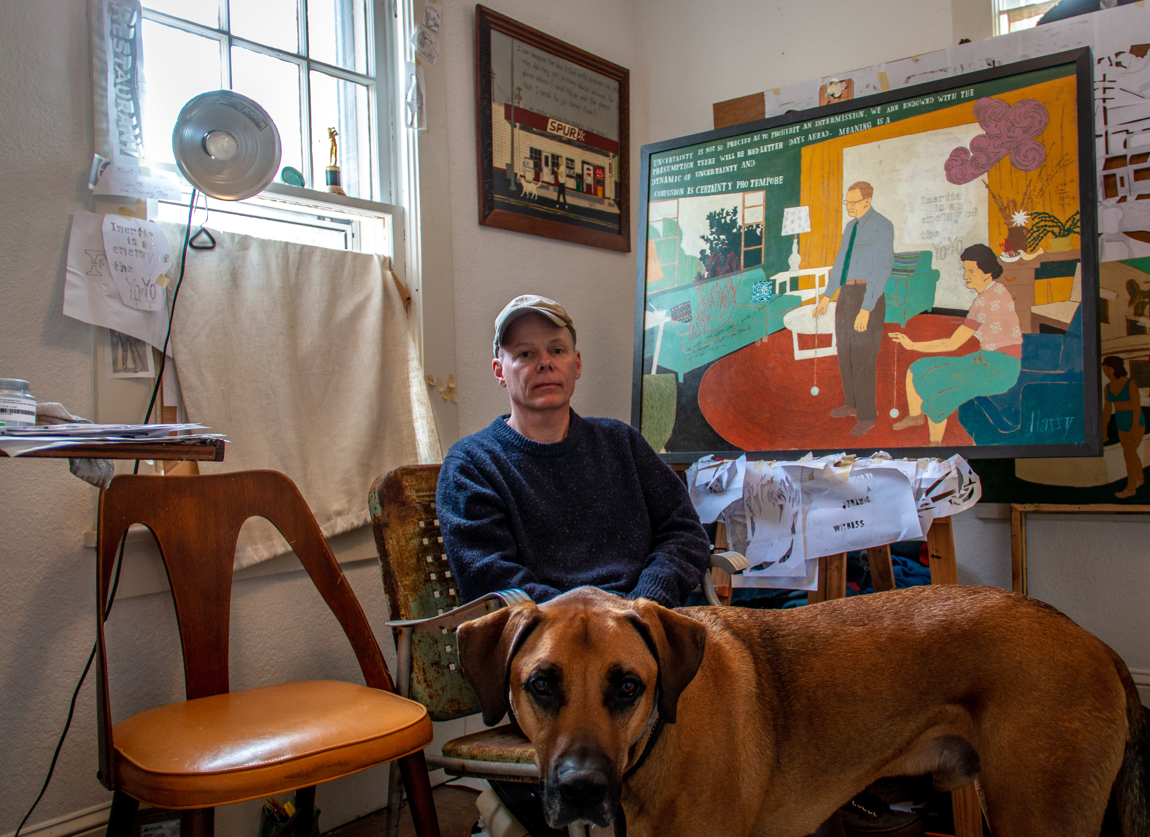 Outsider artist Harry Underwood in his home studio with his dog Mose in December 2018.